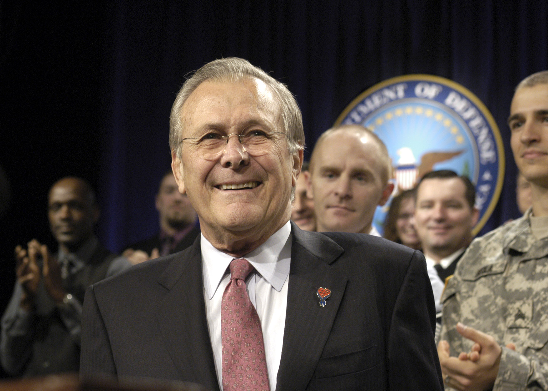 Defense Secretary Donald H. Rumsfeld steps up to the lectern in the Pentagon auditorium for his final town hall meeting with Pentagon employees, Dec. 8, 2006, He was greeted with thunderous applause and a standing ovation.